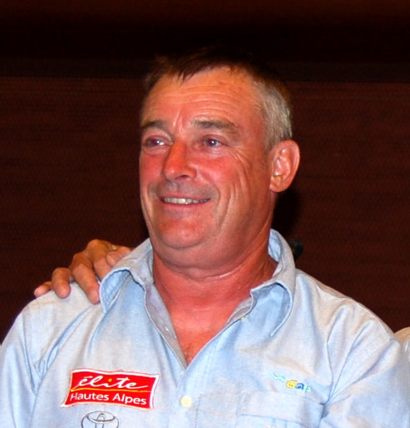 French rally driver Raymond Durand during the award ceremony of the 4th High-Tech Ecomobility Rally in Loutraki, Greece.